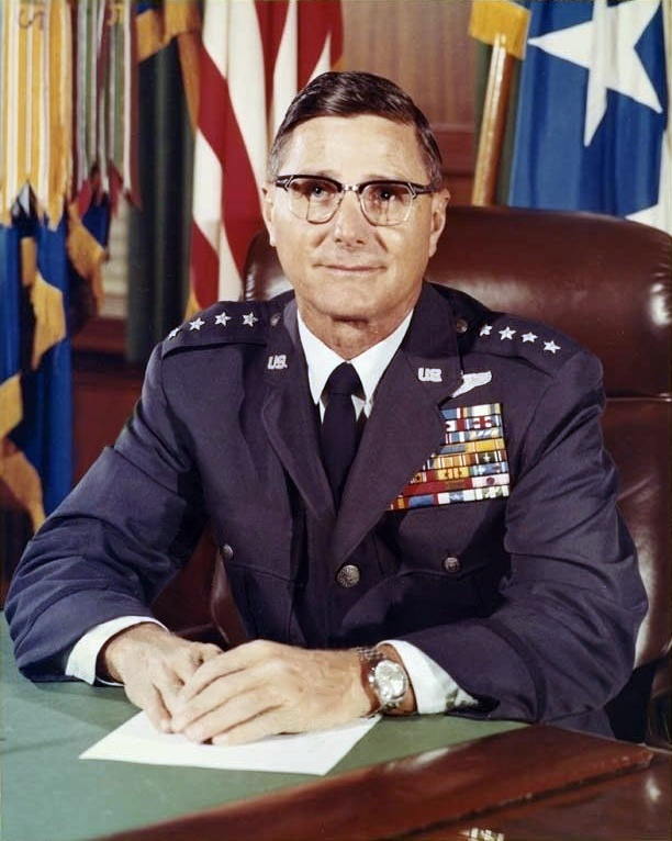 Official portrait of USAF General William W. Momyer.